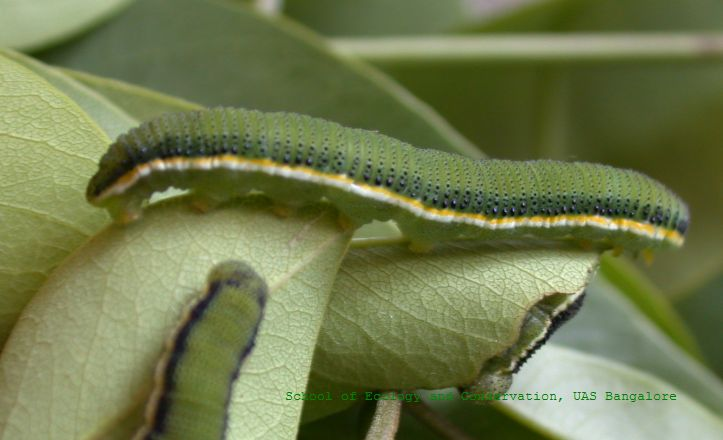 Catopsilia pyranthe caterpillar